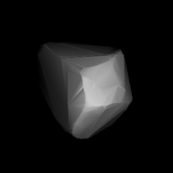 3D convex shape model of 1954 Kukarkin, computed using light curve inversion techniques. J. Hanuš, J. Ďurech, M. Brož, B. D. Warner (June 2011). "A study of asteroid pole-latitude distribution based on an extended set of shape models derived by the lightcurve inversion method". Astronomy and Astrophysics 530: A134. ISSN 0004-6361. arXiv